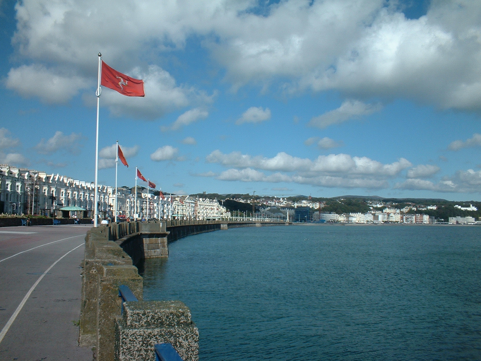 Øya Man, hovedstaden Douglas Isle of Man, main city Douglas